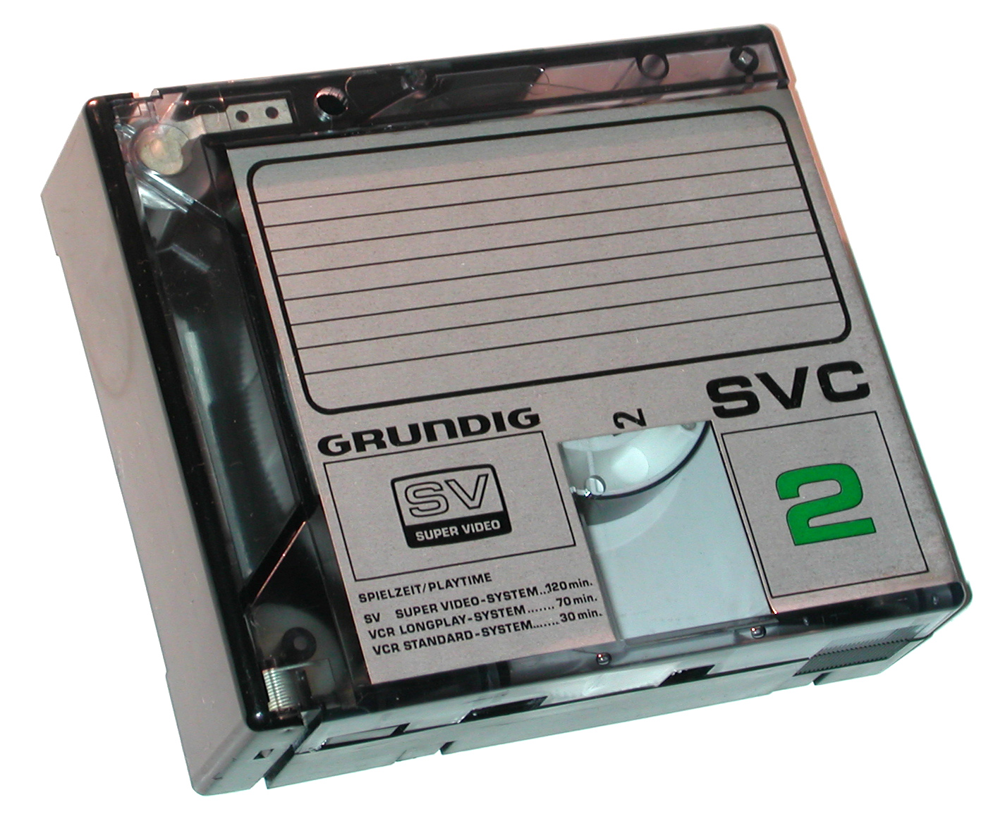 Grundig SVR-compatible video cassette from 1978. As a variant of the Philips' "VCR" format, this cassette is backwards compatible and shows running times for SVR, VCR-LP and standard VCR format machines.